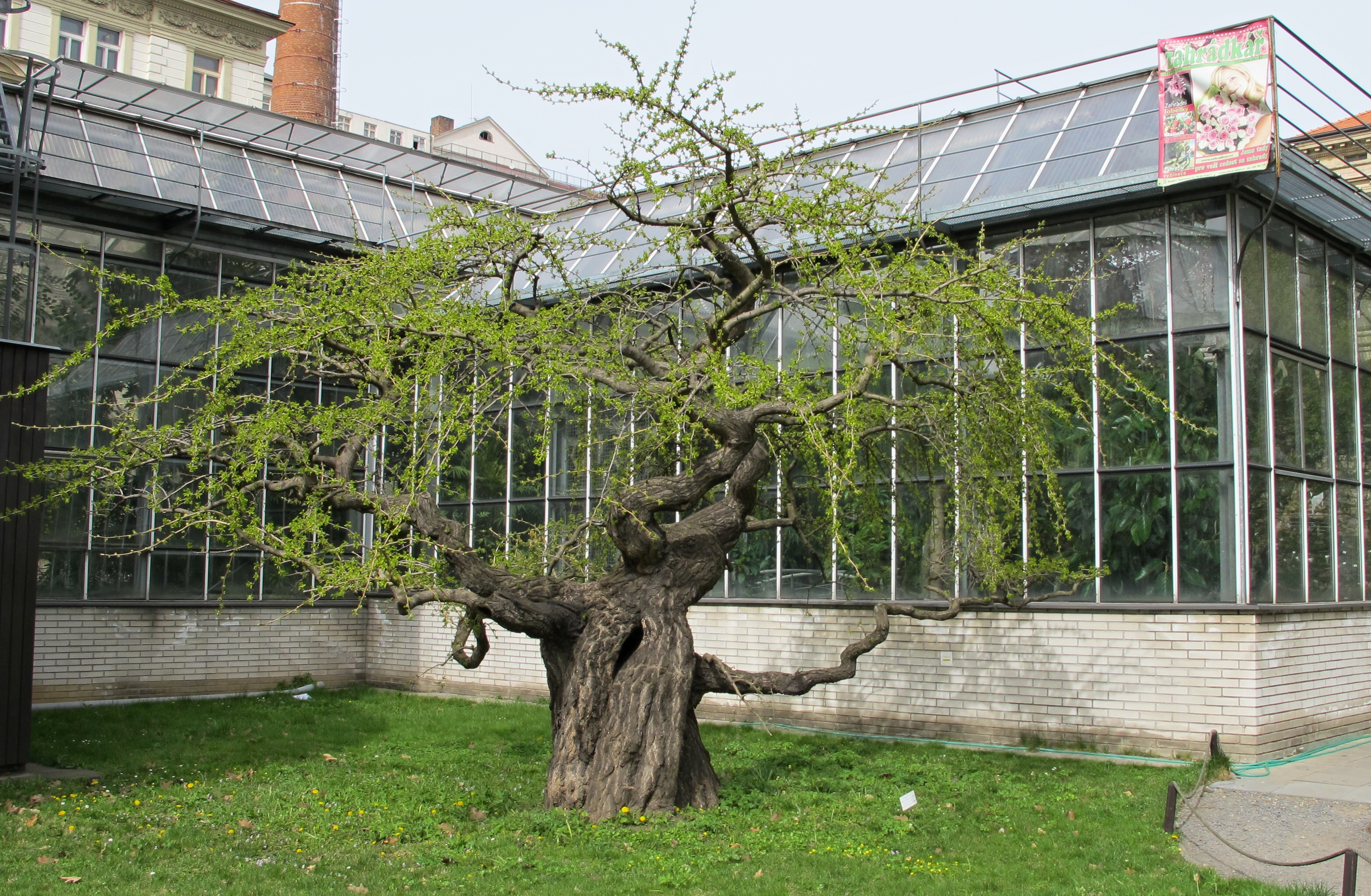 Ginkgo biloba Praga in Botanical garden of the Charles University, Prague - Czech Republic